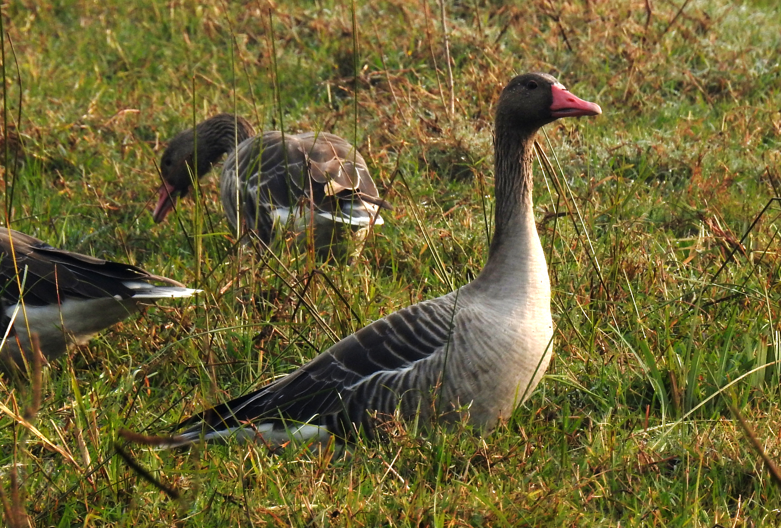 Greylag Goose Anser anse at Keoladeo National Park or Bharatpur Bird Sanctuary, Rajasthan